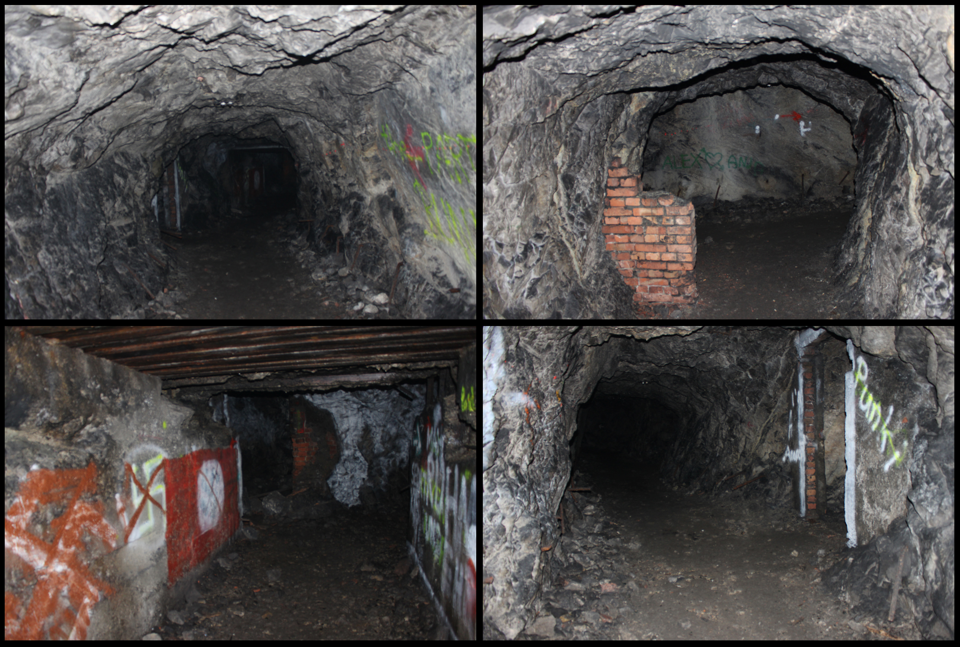 Some pictures from the inside. It was pitch-black inside and our flashlight was a bit weak so the camera flash was a good way to see a bit more.